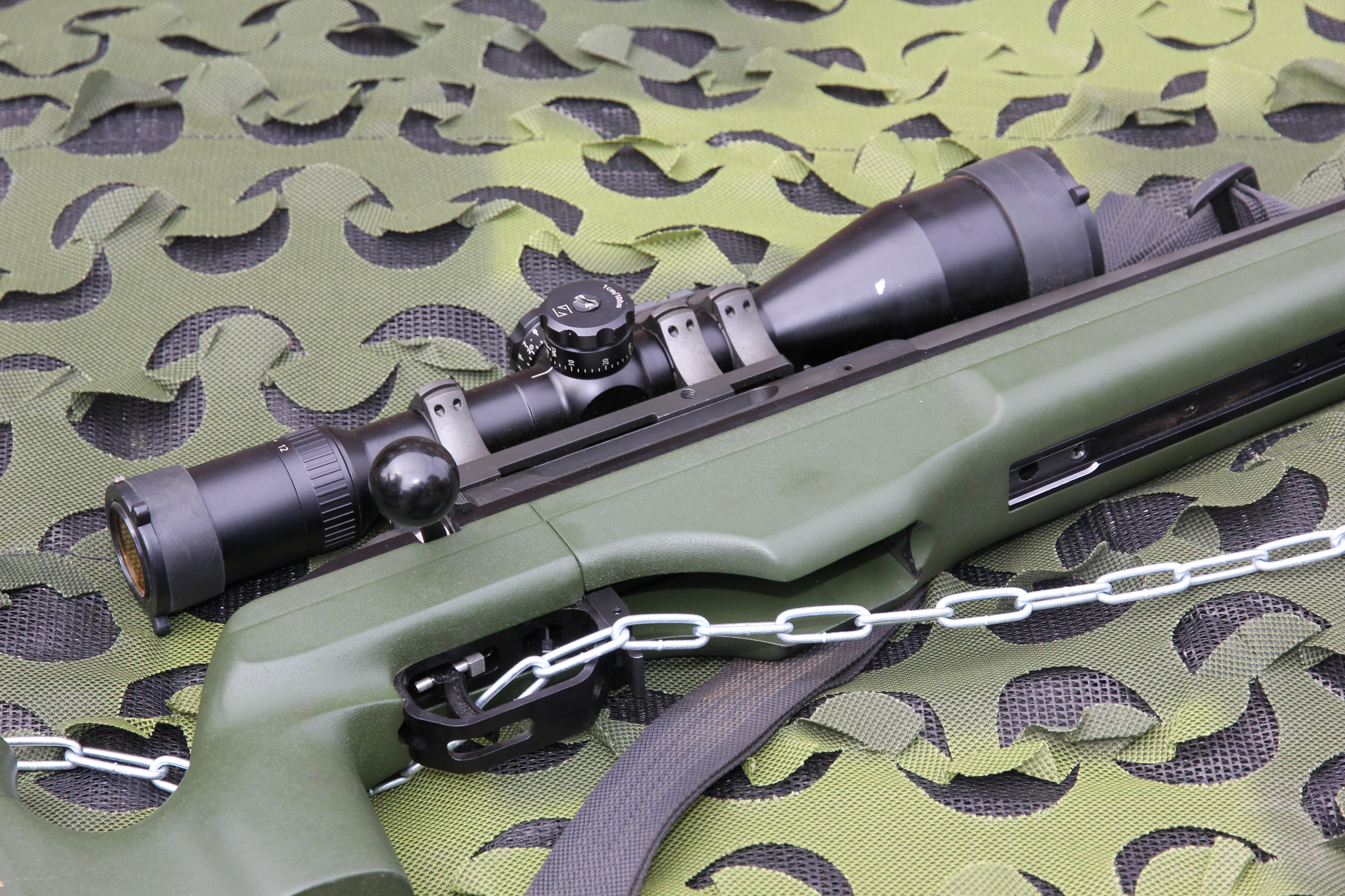 8.6 TKIV 2000 (TRG-42) sniper rifle on display during Finnish Defence Forces 2014 Flag day in Lappeenranta Rakuunanmäki.